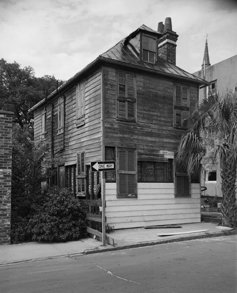 Library of Congress Historic American Buildings Survey, Louis Schwartz, Photographer 54 Queen Street, Charleston, Charleston County, South Carolina